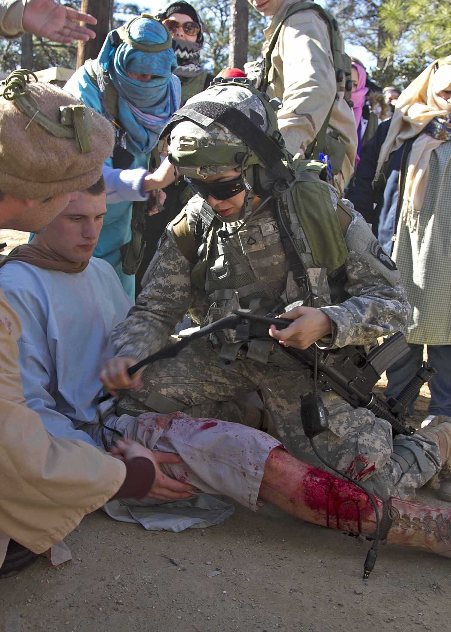 Pfc. Heather Kennedy, a combat medic assigned to Company C, 801st Brigade Support Battalion, 4th Brigade Combat Team, 101st Airborne Division, prepares to apply a combat application tourniquet to a role-player acting as a injured Afghanistan citizen during a combat convoy situational training exercise at the Joint Readiness Training Center in Fort Polk, La., Jan. 20. Kennedy, a native of Dallas, assisted her fellow soldiers by providing tactical combat casualty care during the rotational pre-deployment training exercise. (U.S. Army photo by: Sgt. Terence Ewings, 24th Press Camp Headquarters)